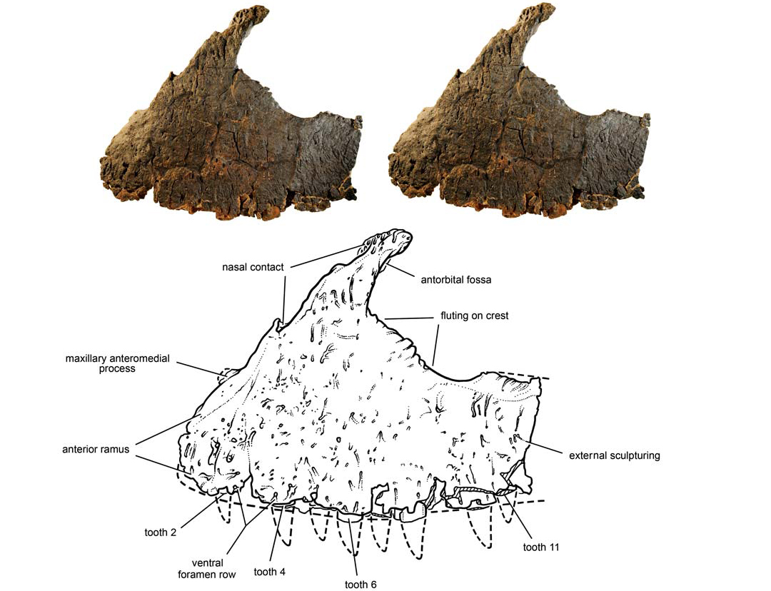 Abelisaurid theropod Kryptops palaios gen. et sp. nov. MNN GAD1−1 from the Lower Cretaceous Elrhaz Formation of Niger. Left maxilla in lateral view; stereopair (A) and line drawing (B). Cross−hatching indicates broken bone; dashed lines indicate estimated edges.